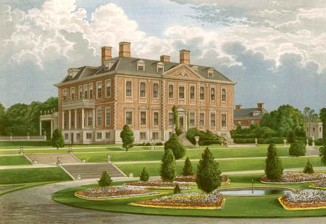 Melton Constable Hall in Norfolk, England from Morris's Country Seats (1880).